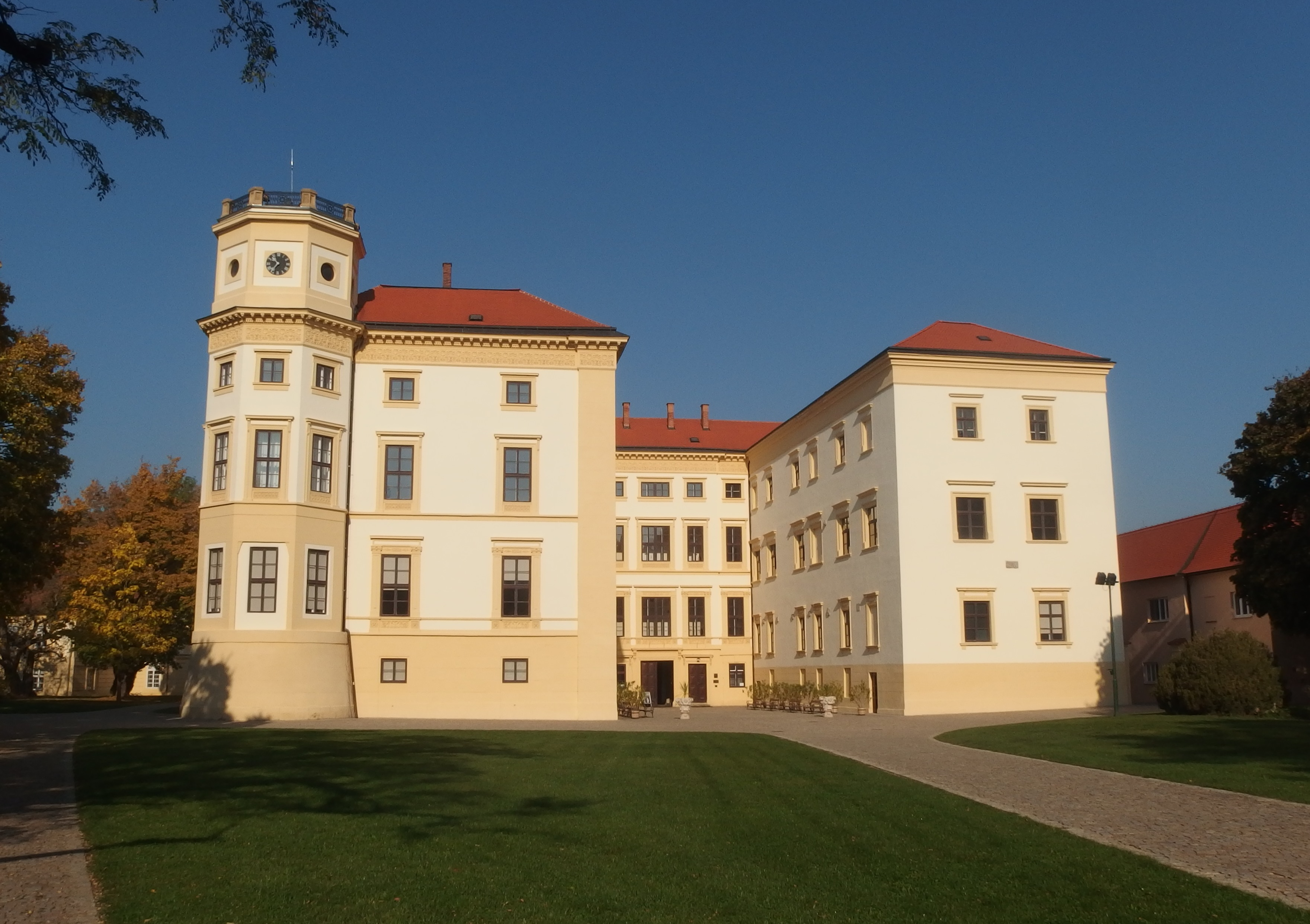 Strážnice, Hodonín District, Czech Republic.